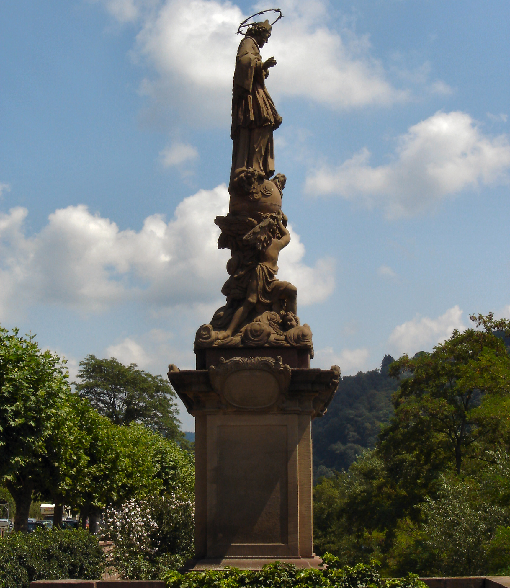 Statue of Saint John Nepomucene near the Old Bridge (Alte Brücke) in Heidelberg, Germany. Unknown sculptor, 1738.